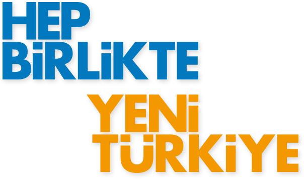 The election slogan for the Justice and Development Party of Turkey for the June 2015 general election (translates to: All Together for a New Turkey)